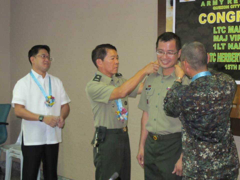 UP Village Bgy Captain and Lawyer Virgilio S Ferrer II is promoted and donned with the rank of Major in the reserve force, Philippine Army. He is donned by (L) BGEN Marcelo B Javier Jr (RES) AFP and (R) COMMO George Cataneo AFP while (Leftmost) Mayor Herbert Bautista looks on.